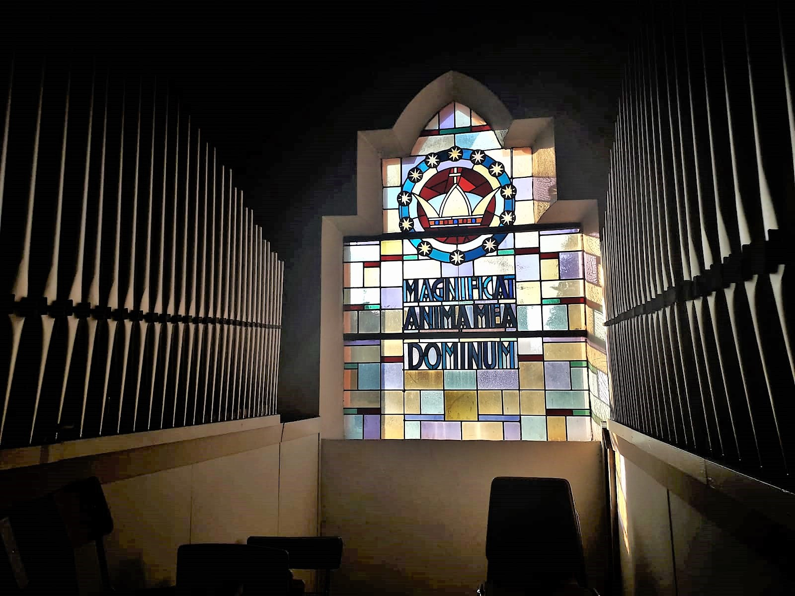 roman catholic St.-Mary's church in Saarbrücken, Saarland, Germany